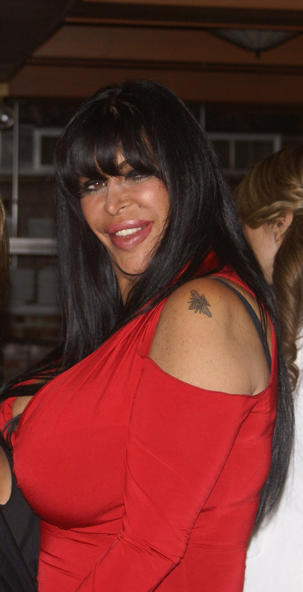 Big Ang in 2012